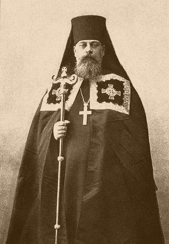 Seraphin (Chichagov), metropolitan of Leningrad and a new martyr, as archimandrite.